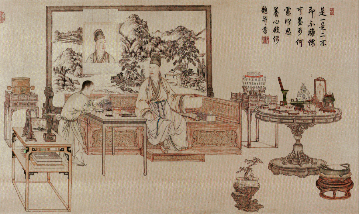 The Qianlong Emperor and his art collection